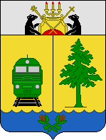 Coat of Arms of municipality "Khvoyninsky rayon" (Novgorod oblast in Russia)